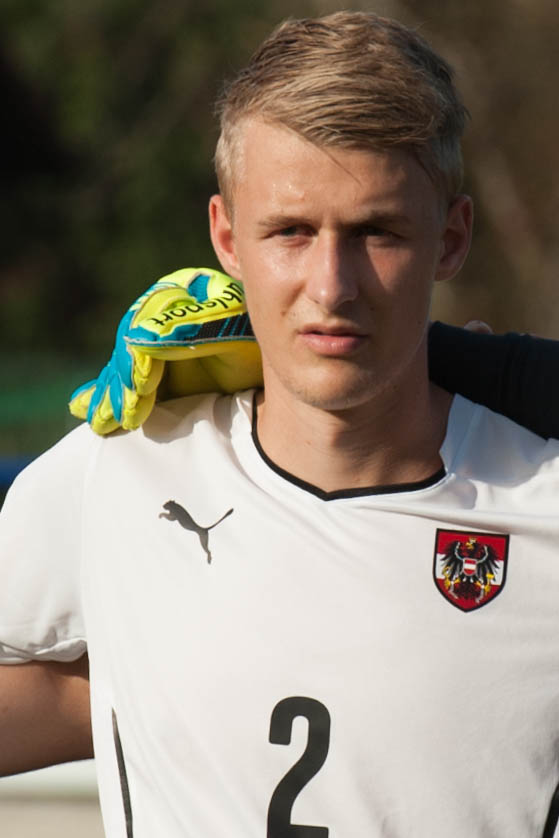 U21 Austria - DR Congo, 2014-10-12: Lukas Gugganig